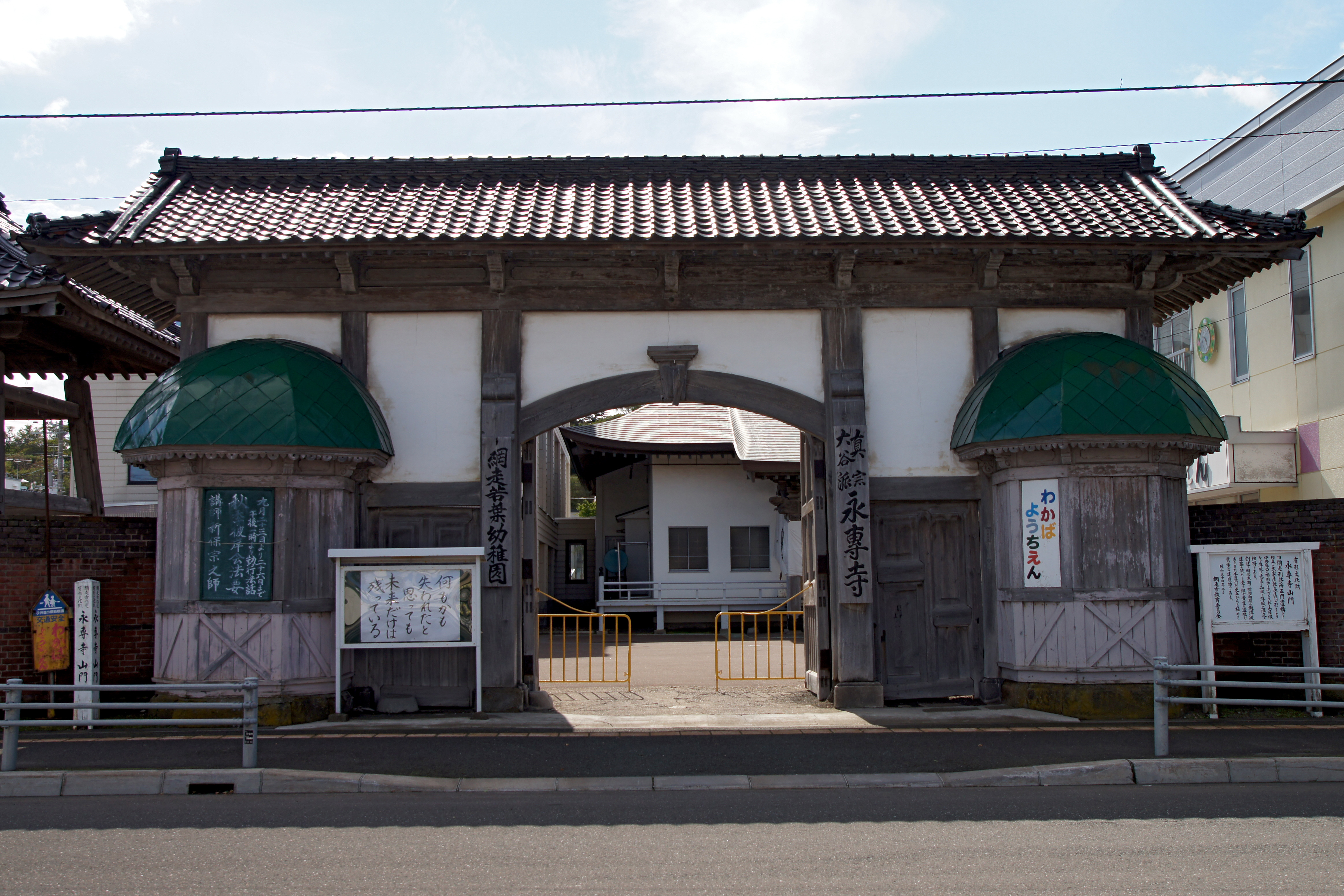 Eisen-ji in Abashiri, Hokkaido prefecture, Japan